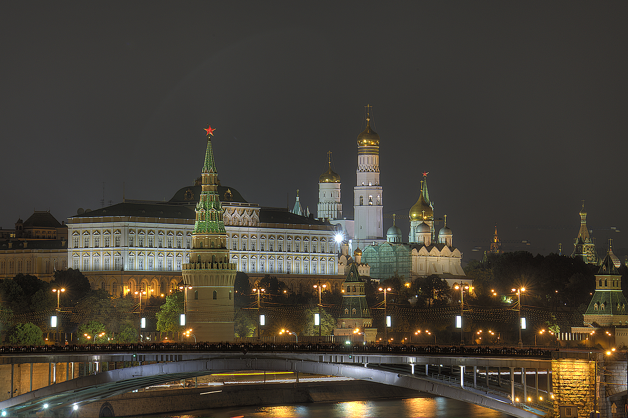 Moscow Kremlin at night